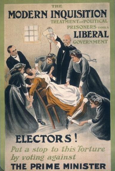 Poster by 'A Patriot', showing a suffragette prisoner being force-fed, 1910.